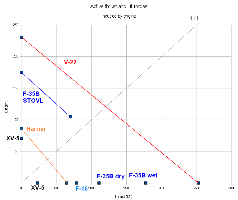 Graph of corresponding engine lift and thrust forces (max.) of various STOVL aircraft, including F-35B, V-22, Harrier